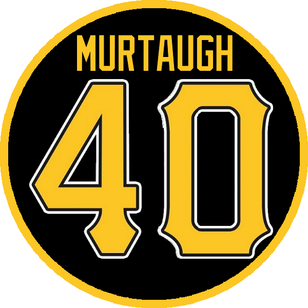 Illustration of Pittsburgh Pirates retired number